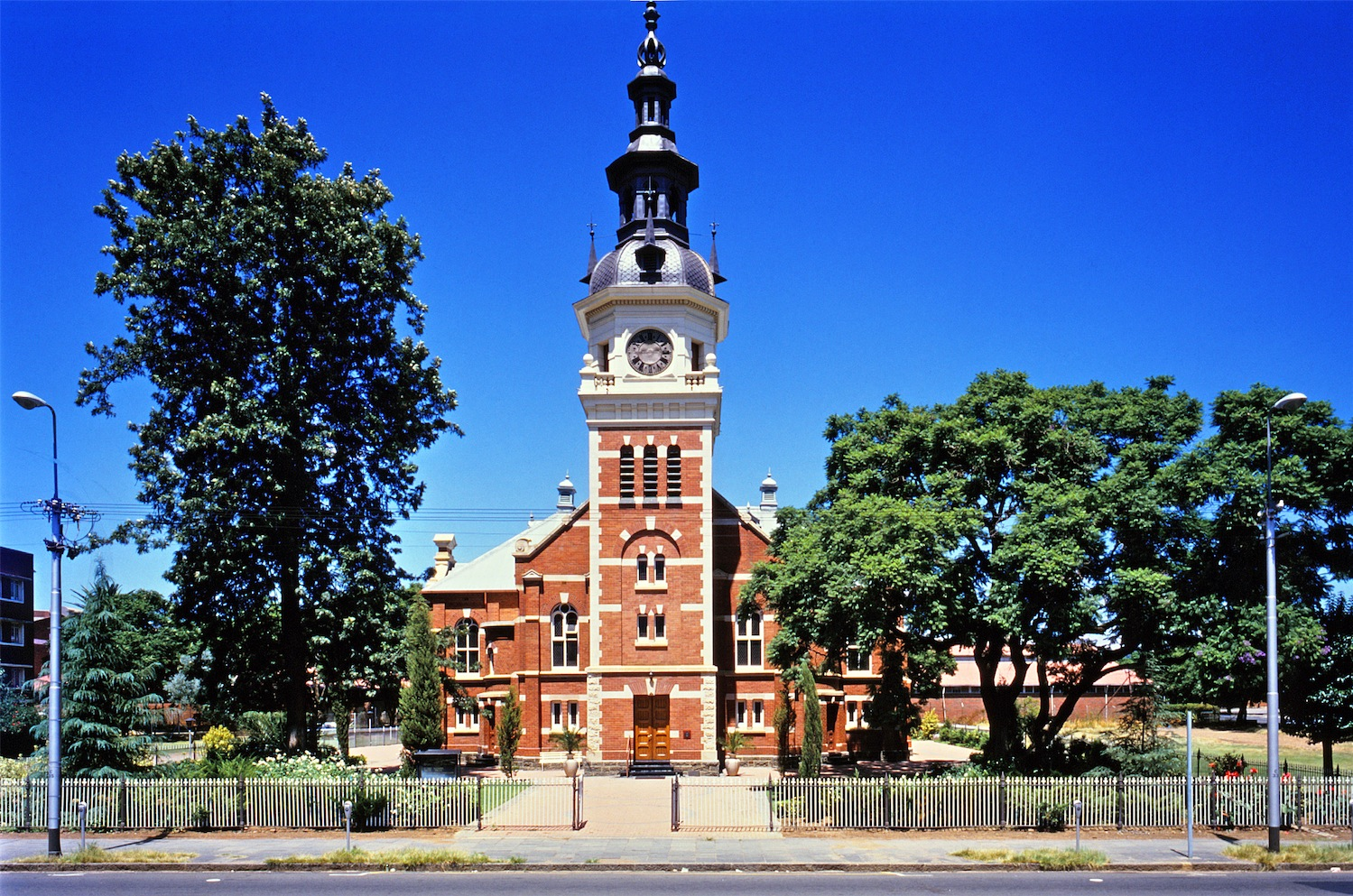 This media shows a South African Protected Site with SAHRA file reference 9/2/258/0115.